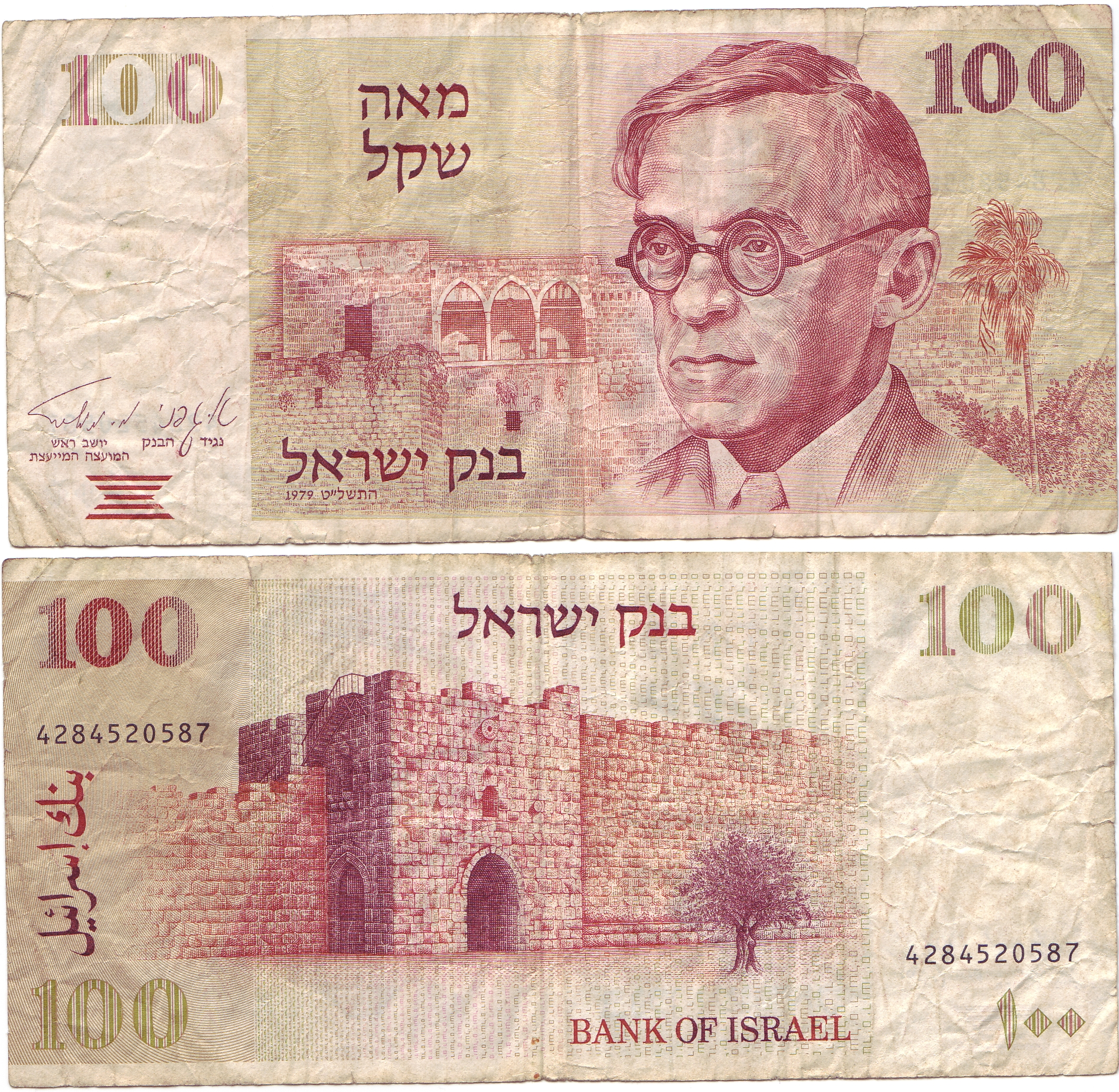 100 old Shekel bill dated 1979 התשל"ט